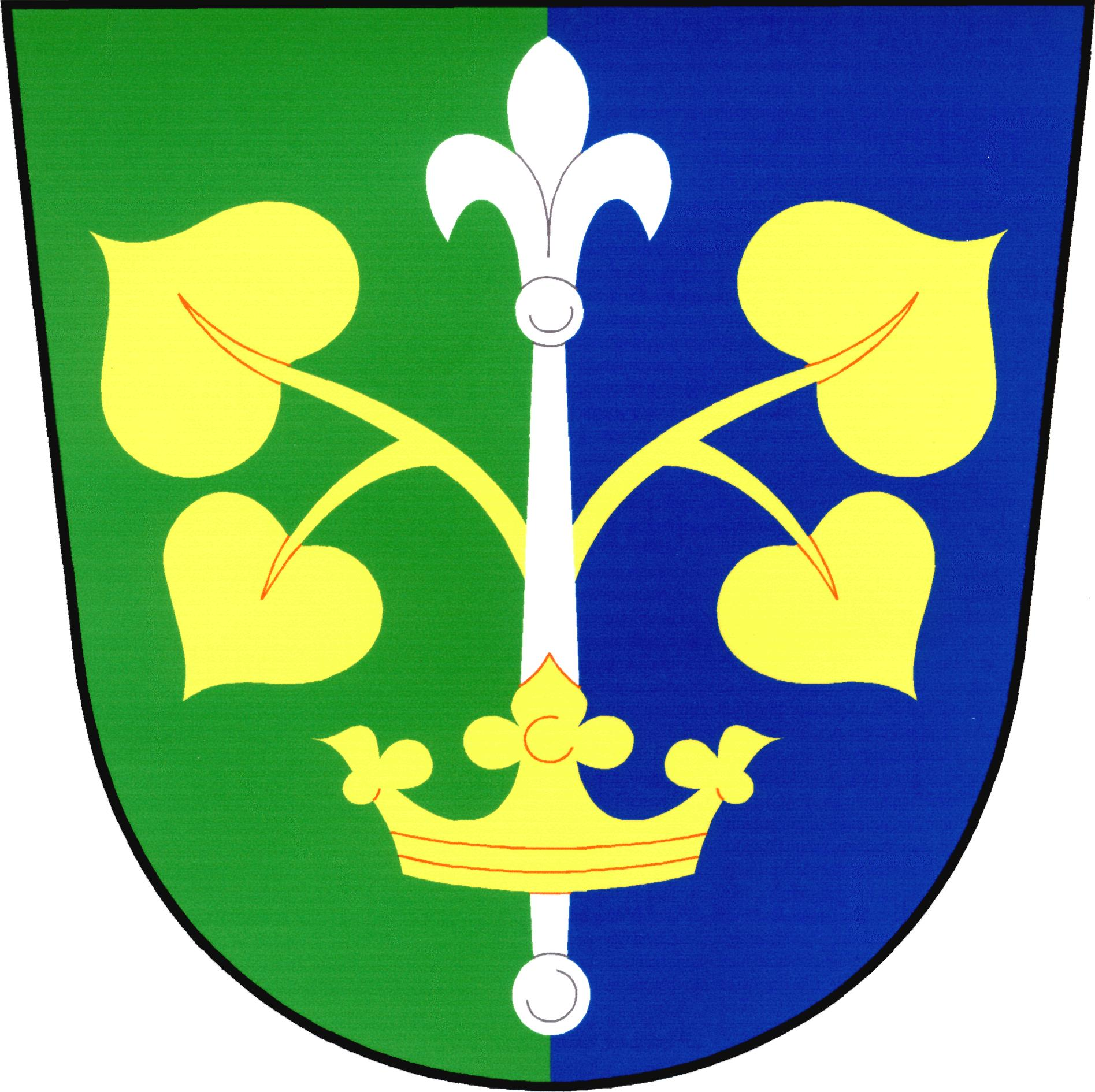 Municipal coat of arms of Bohaté Málkovice village, Vyškov District, Czech Republic.